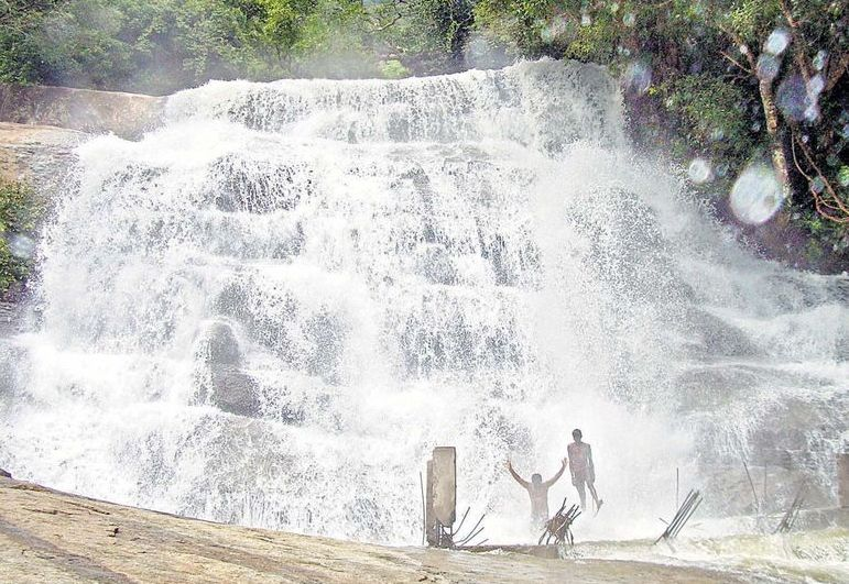 Meghamalai Falls, Theni District, India.